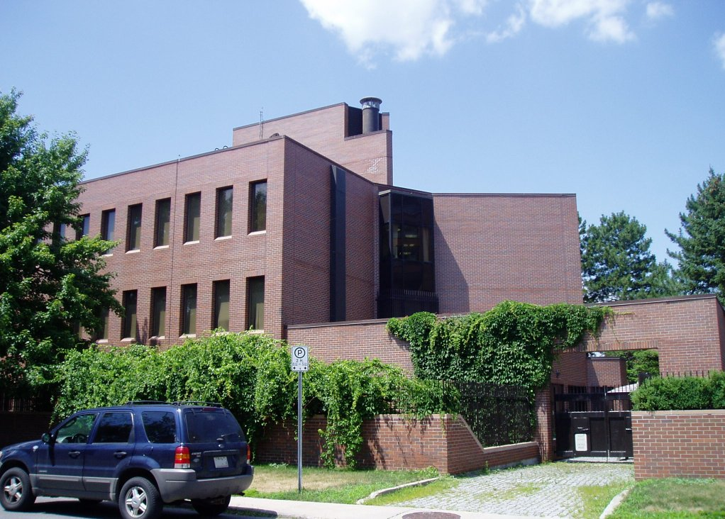 Embassy of Japan in Canada - Taken by SimonP in July 2005